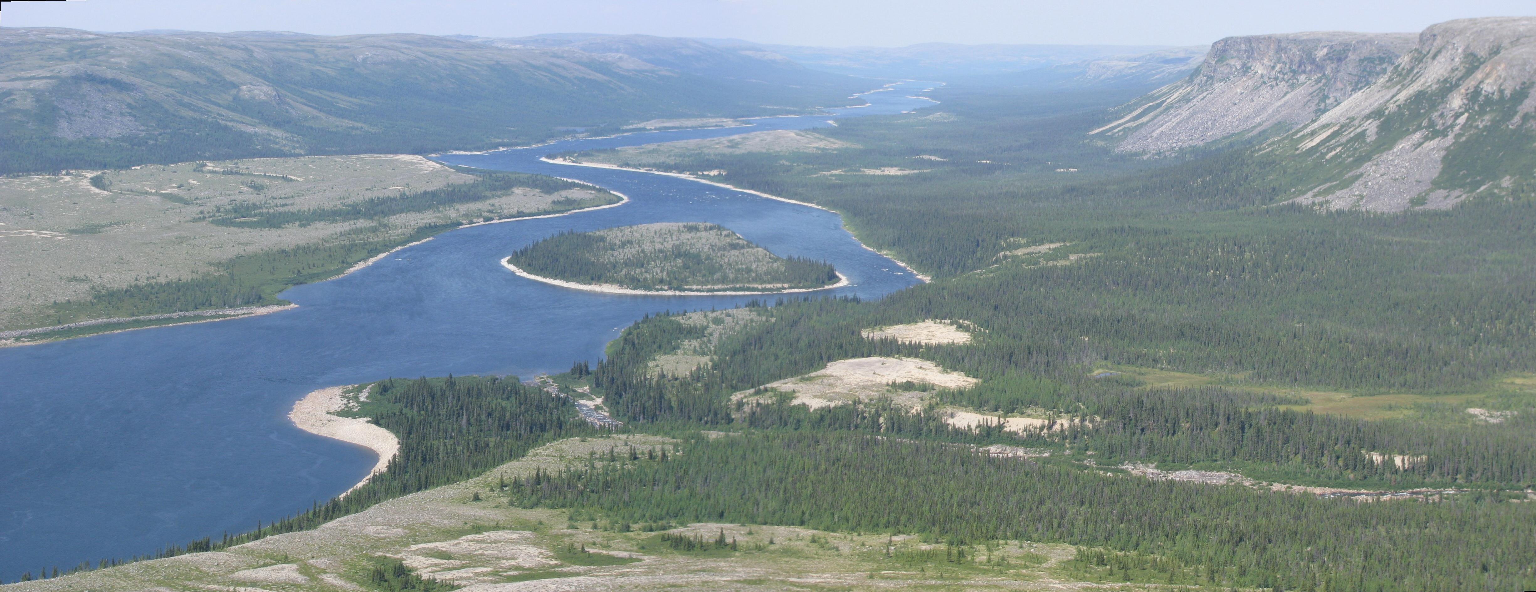 View of George River from Pyramid Peak